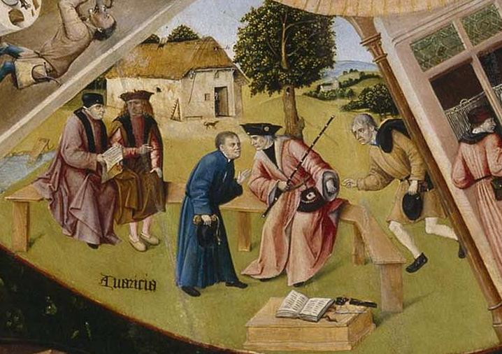 Table of the Mortal Sins [detail: Avaricia (medieval spelling for Avaritia, greed)].